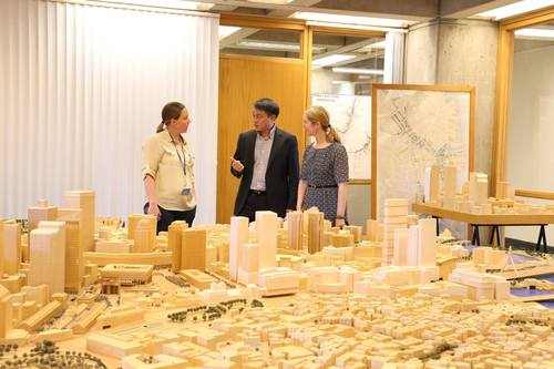 Метрополис хотуудын хөгжлийн төлөв хандлага, хөгжлийн гарц, шийдэл